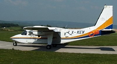 Britten-Norman Islander at Krems Airport, 2002.